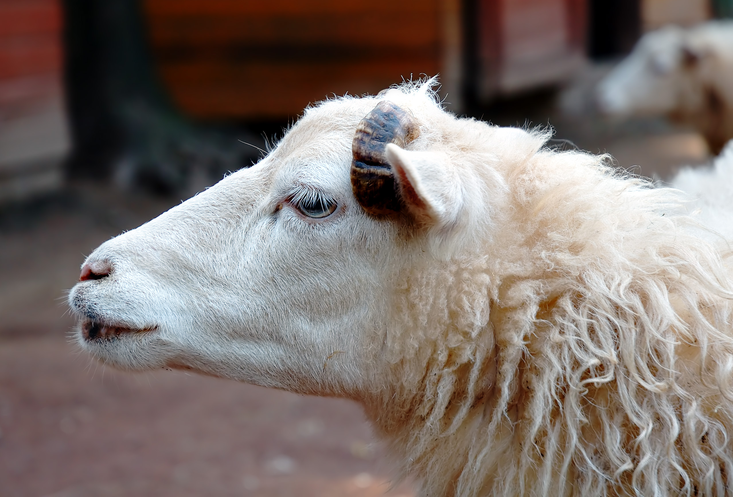 This image shows a Sheep (Ovis orientalis aries) of the race "Skudde", Germany.